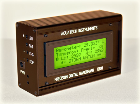 Precision Digital Barograph